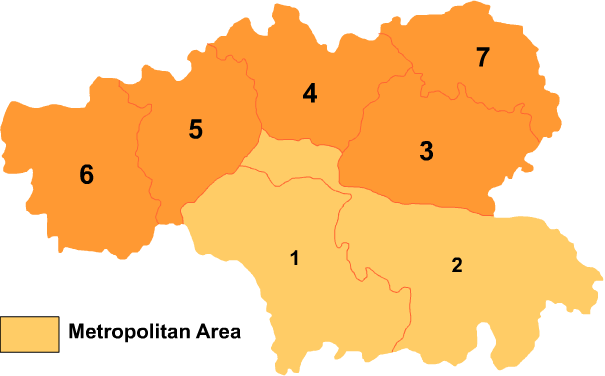 Map of Tianshui in Gansu province